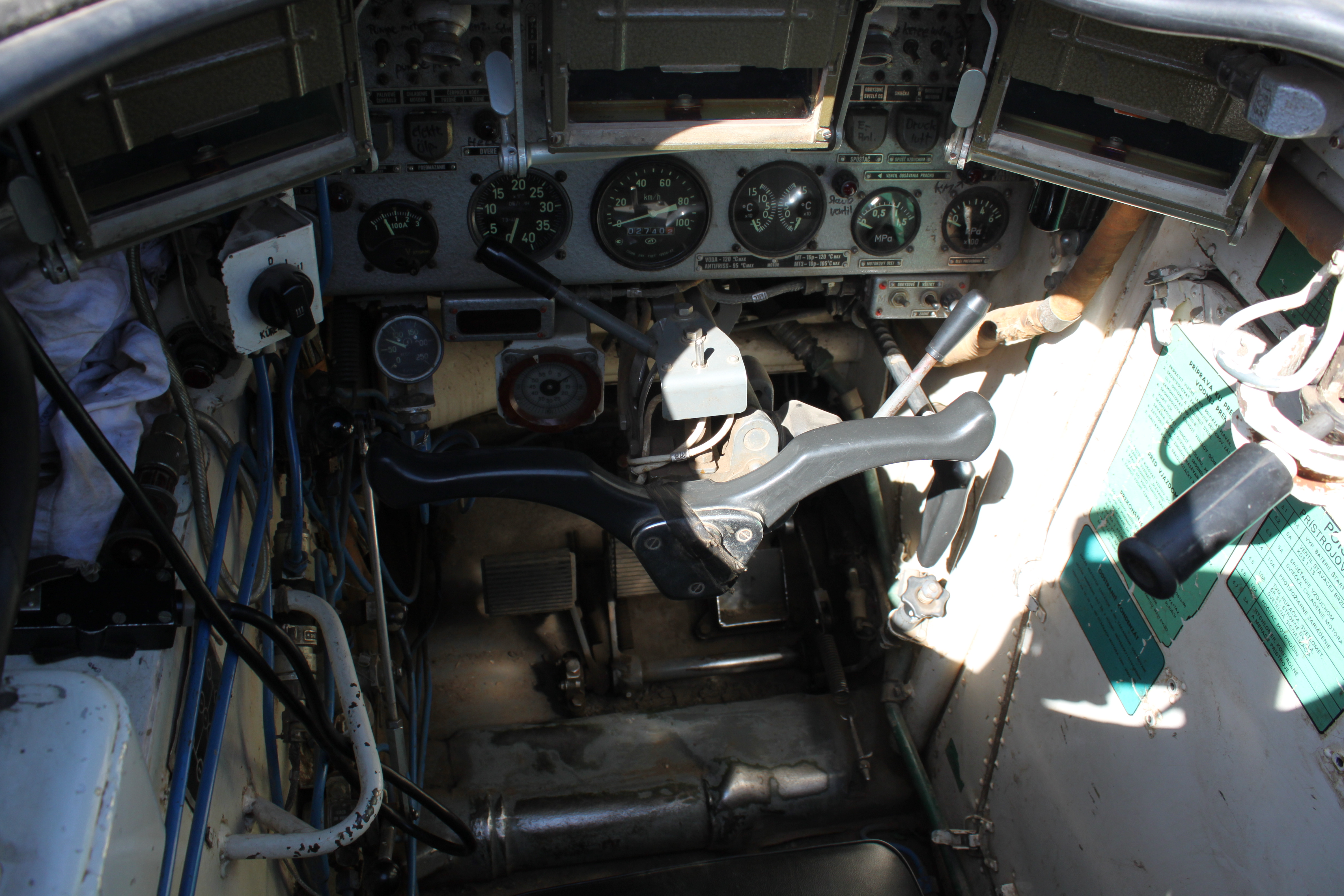 BMP-1 unknown version, was in service from? in Thiendorf